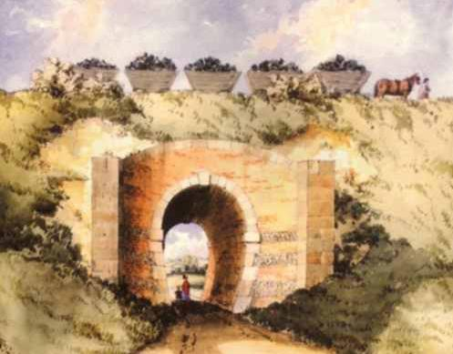 Watercolour showing the Surrey Iron Railway, the first public railway company, passing Chipstead Valley Road.